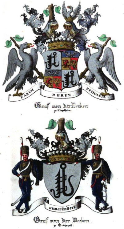 Coat of Arms Count von der Decken-Ringelheim and Count von der Decken Oerichsheil